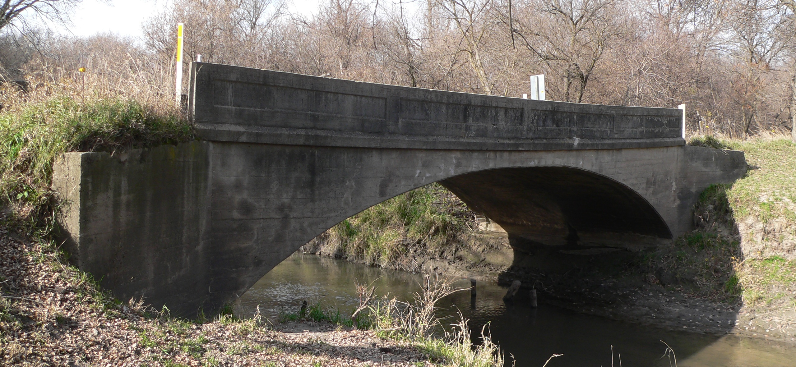 Historic bridge in Fillmore County, Nebraska, seen from the southeast (downstream). The bridge is located where County Road 6 crosses the West Fork of the Big Blue River. The concrete spandrel arch bridge was designed by county engineer William A. Biba and built by contractor Frank N. Craven in 1918. It is listed in the National Register of Historic Places.